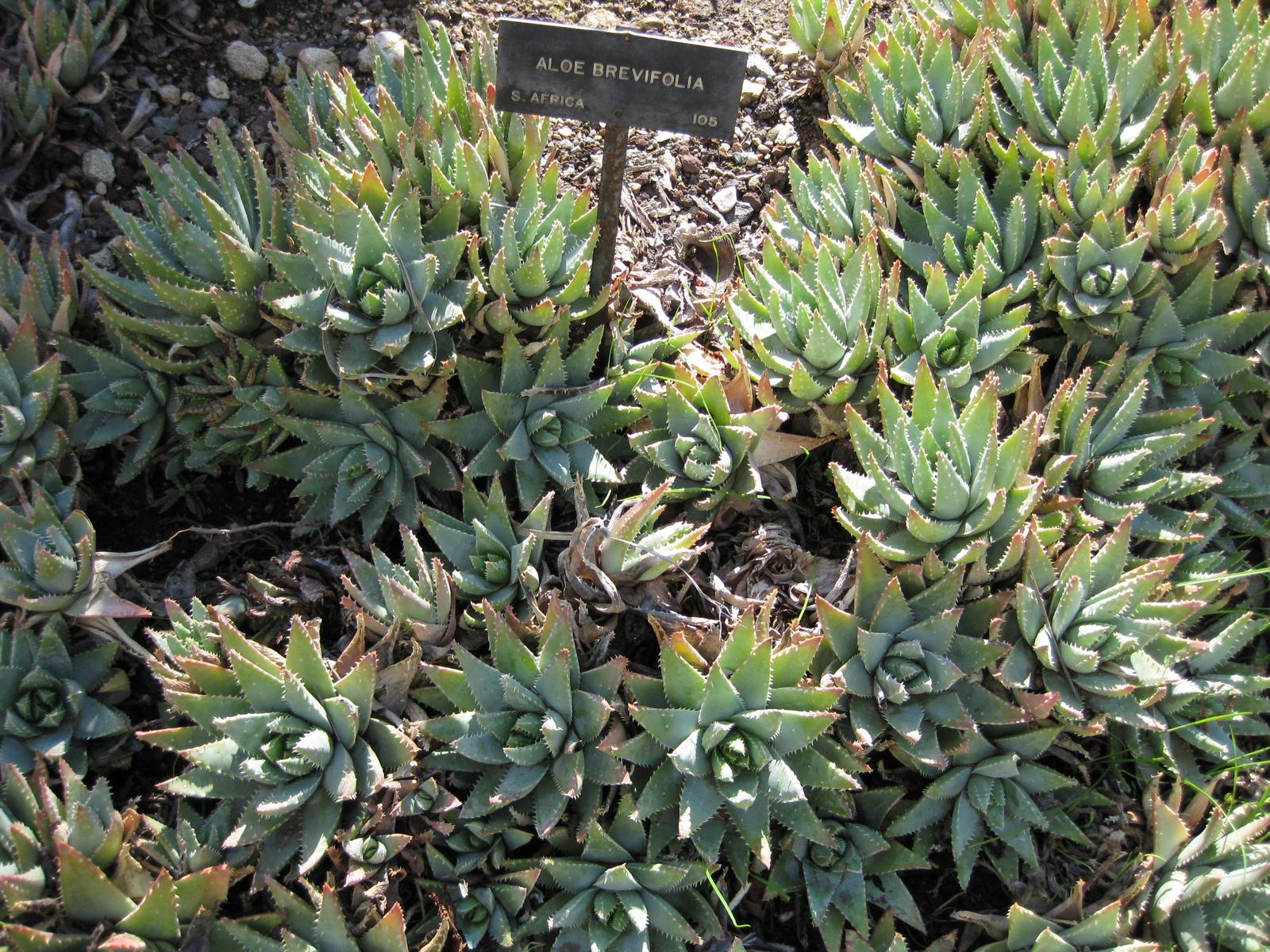 Photographed at Huntington Gardens (Los Angeles, California) in March